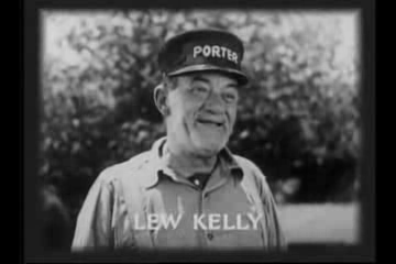 Lew Kelly in Winds of the Wasteland, a 1936 film by Mack V. Wright